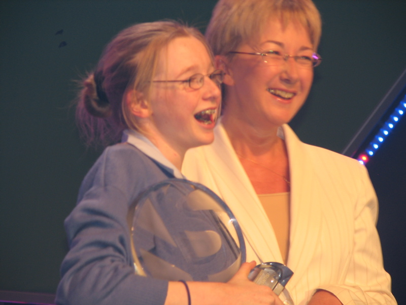 Aisling Judge (left) with Mary Hanafin upon winning the Young Scientist and Technology Exhibition.